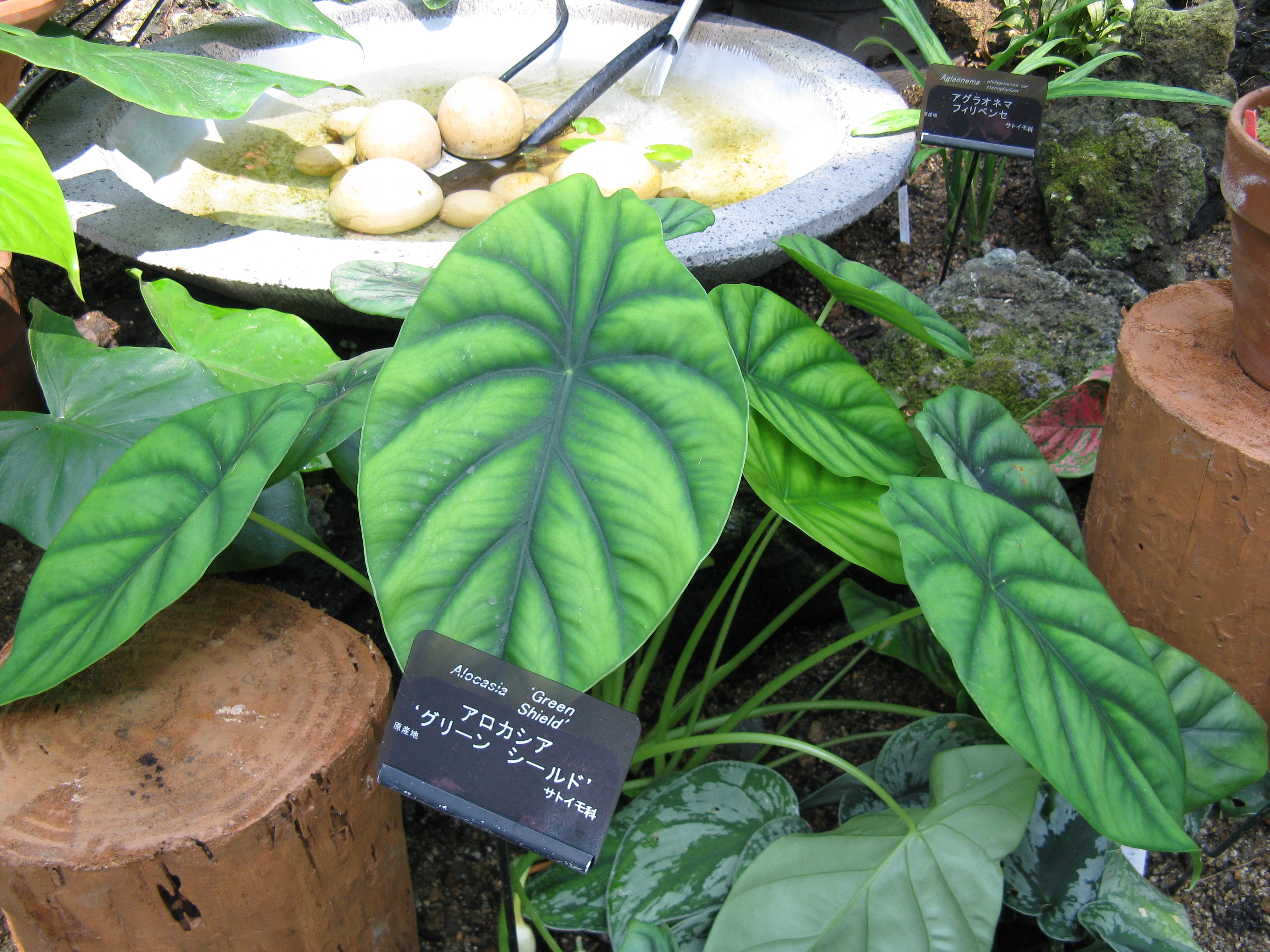 Alocasia 'Green Shield' Place:Osaka Prefectural Flower Garden,Osaka,Japan